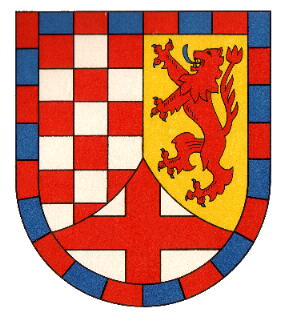 Wappen Amt Herrstein